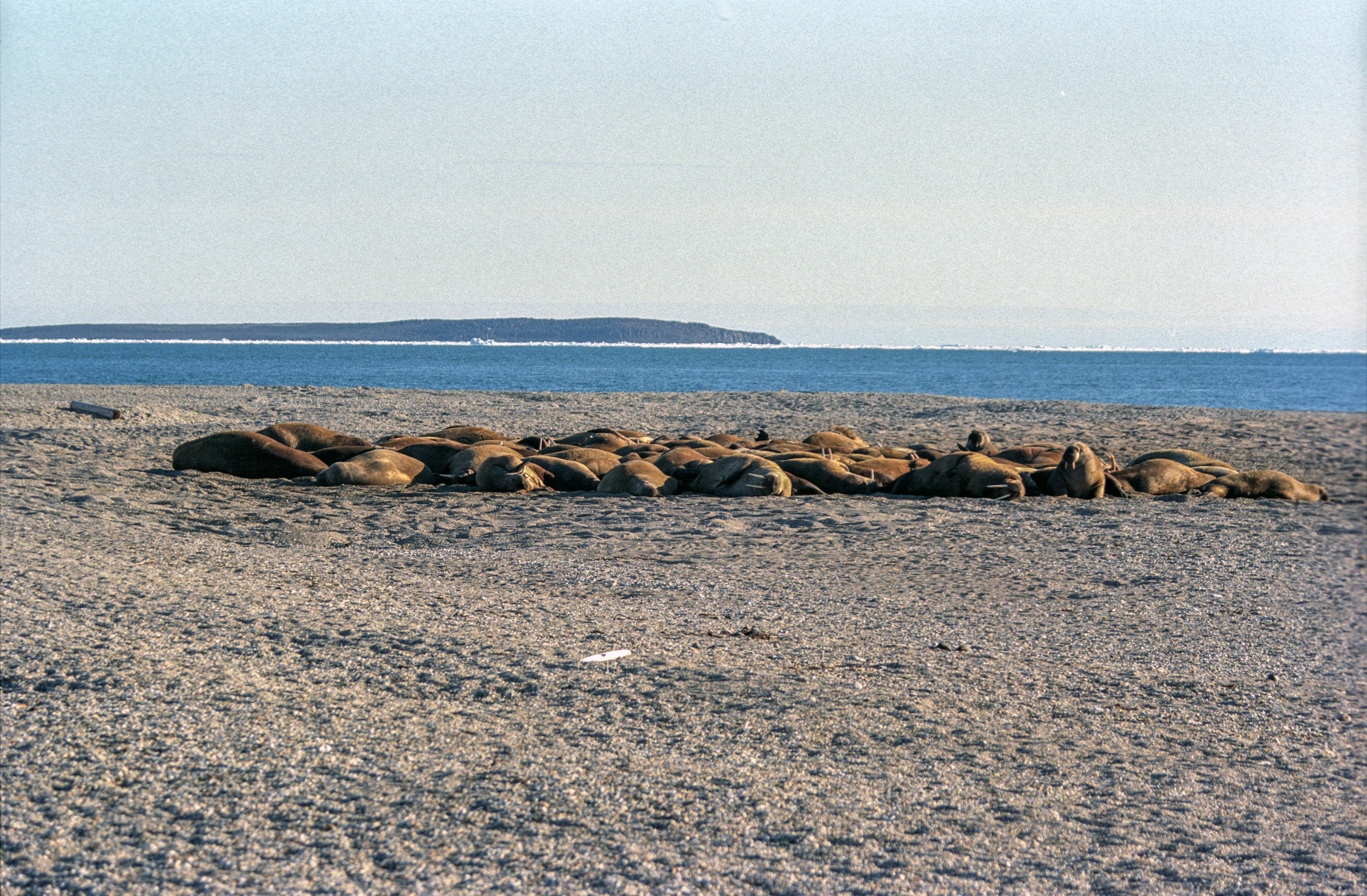 Svalbard, Nordaustlandet, walruses colony